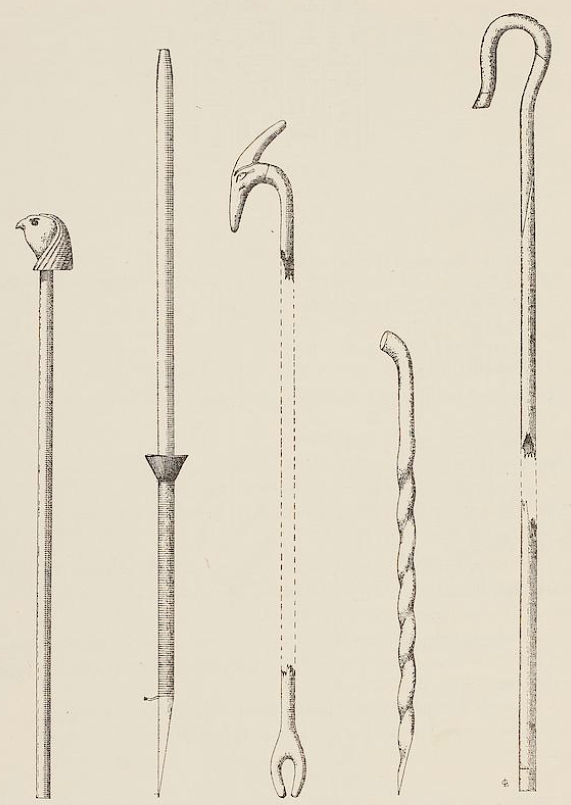 Drawing of the flails and scepters of Hor Awibre found in his nearly intact tomb by Jacques de Morgan in 1894.